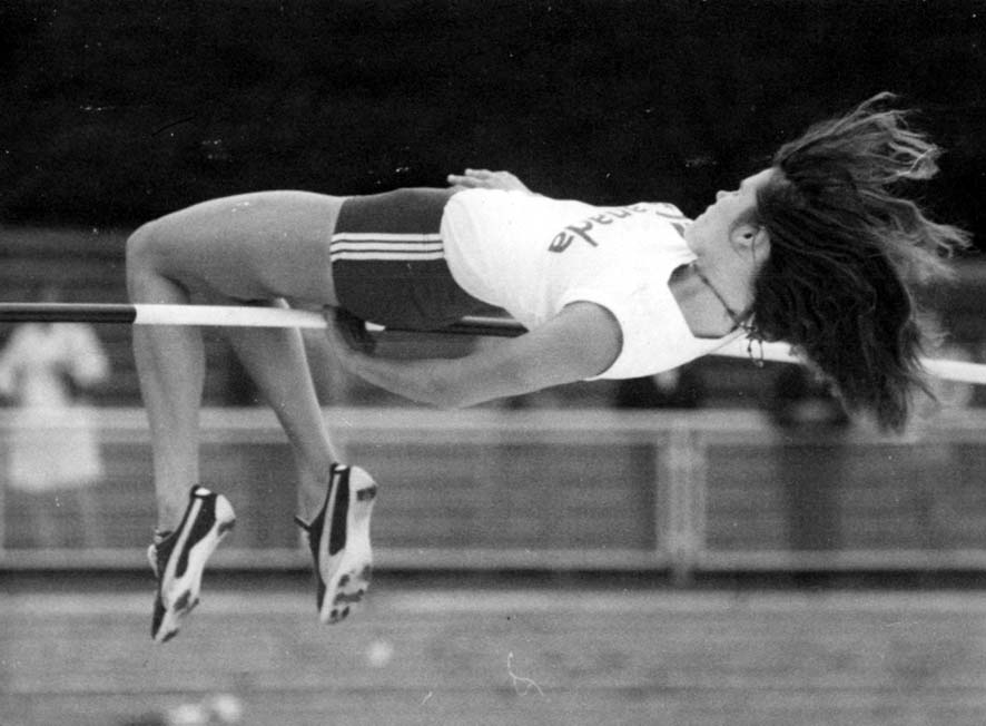 Debbie Brill, 1972 in the Essen (Germany) Gruga-Stadium.